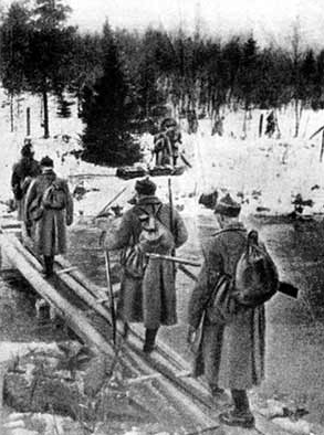 Soviet infantry crossing the Rajajoki river in the Karelian Isthmus on November 30, 1939.